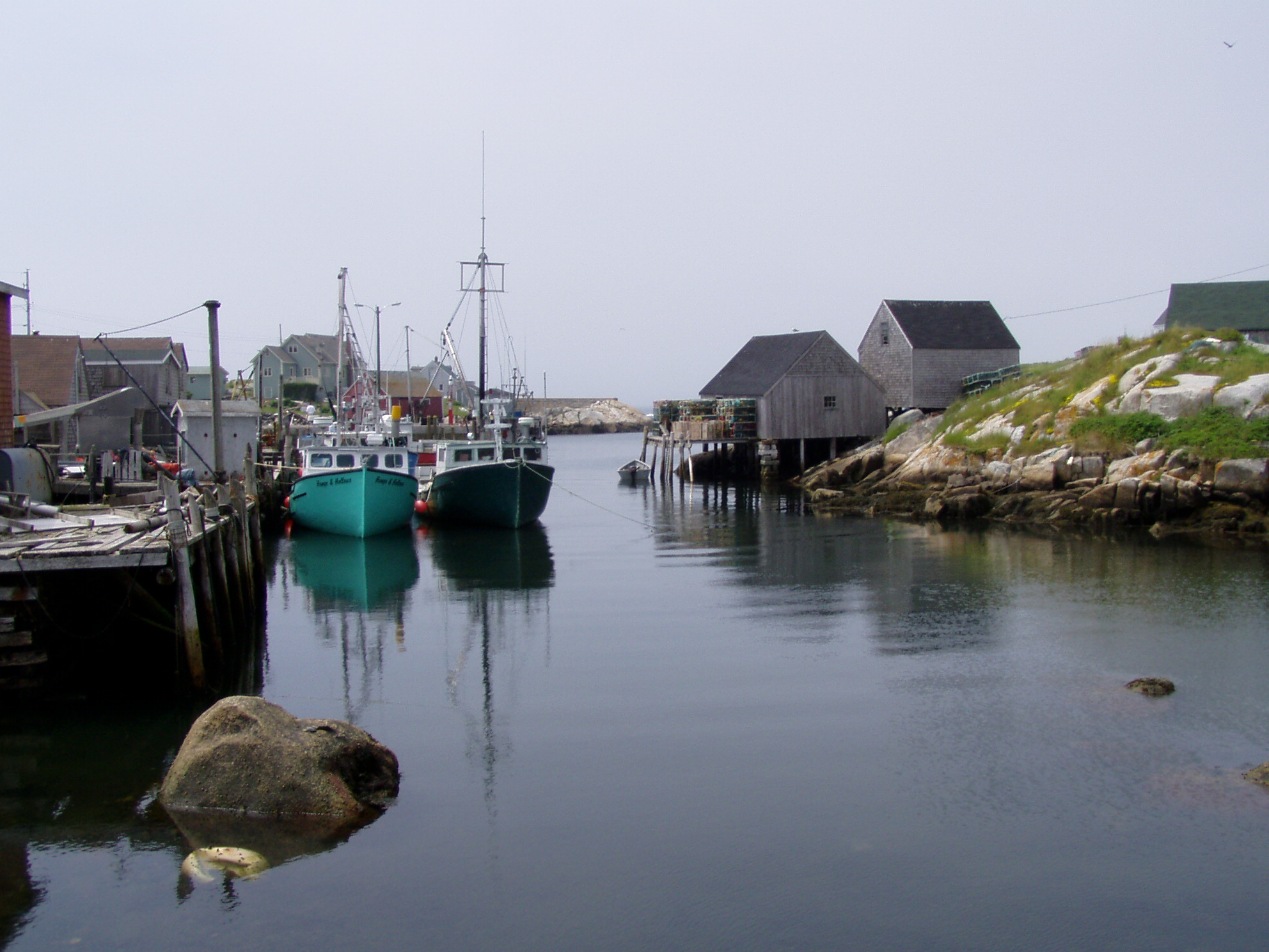 Peggys Cove harbour, Nova Scotia, Canada. Photo taken in July 2004 by myself, Danielle Langlois.